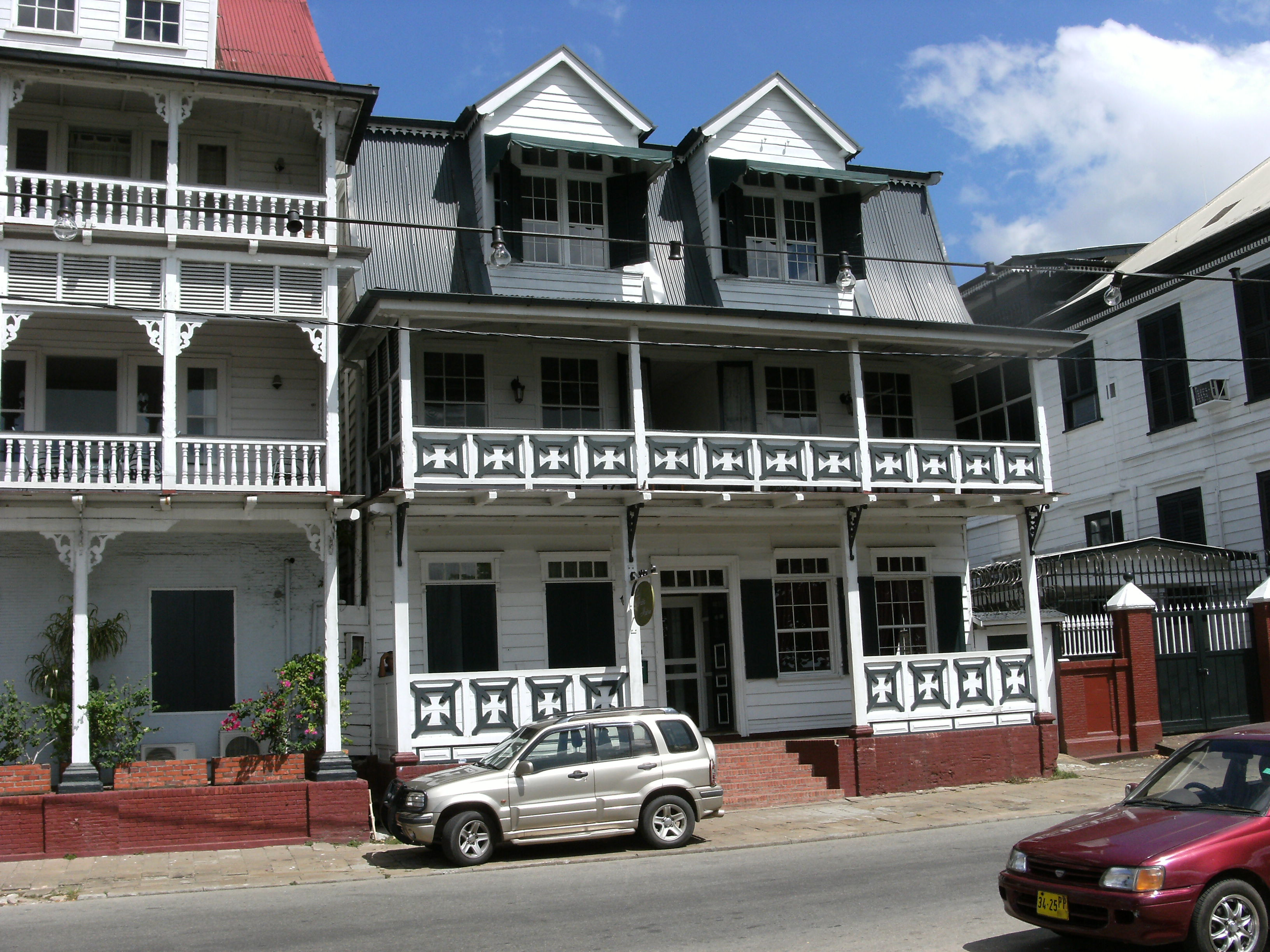 Buildings at Waterkant.